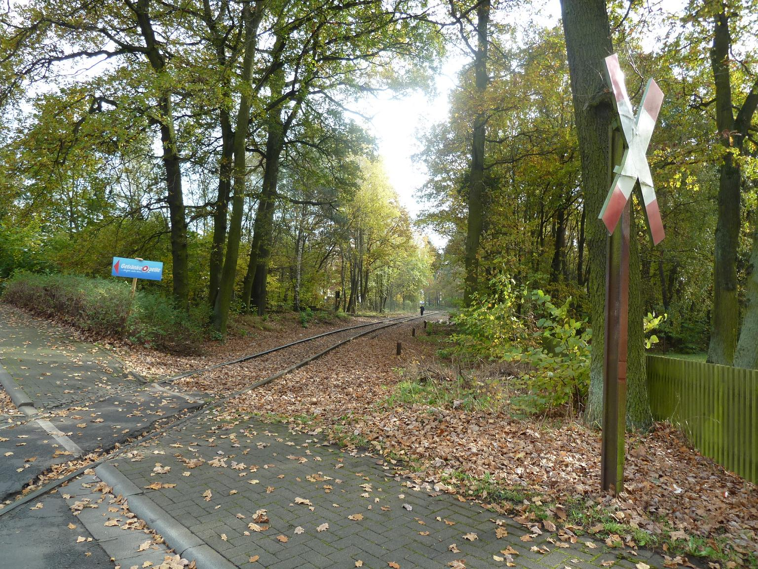 Track of the former factory railway of the Allendorf explosives factory.